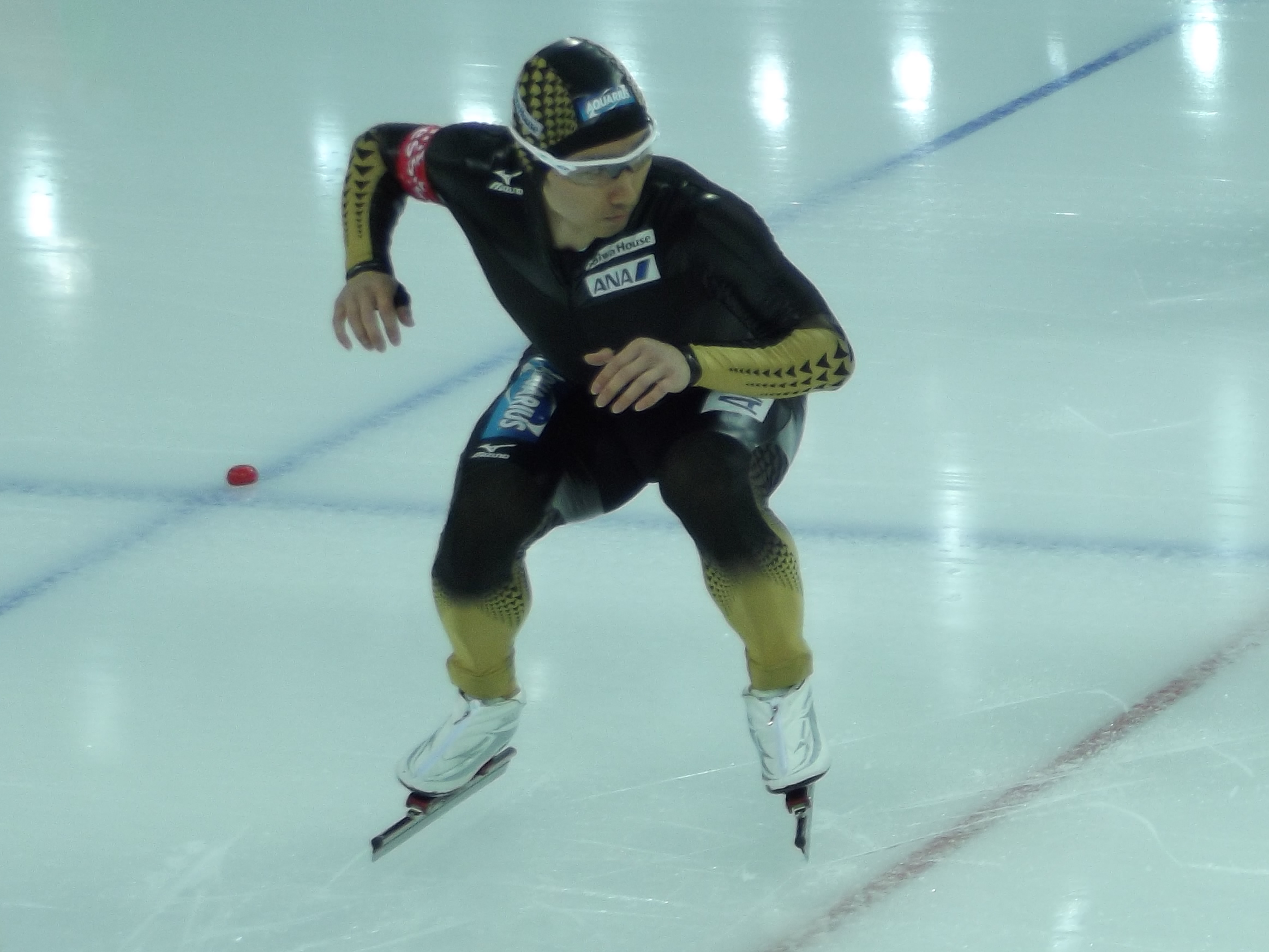 2013 World Single Distance Speed Skating Championships